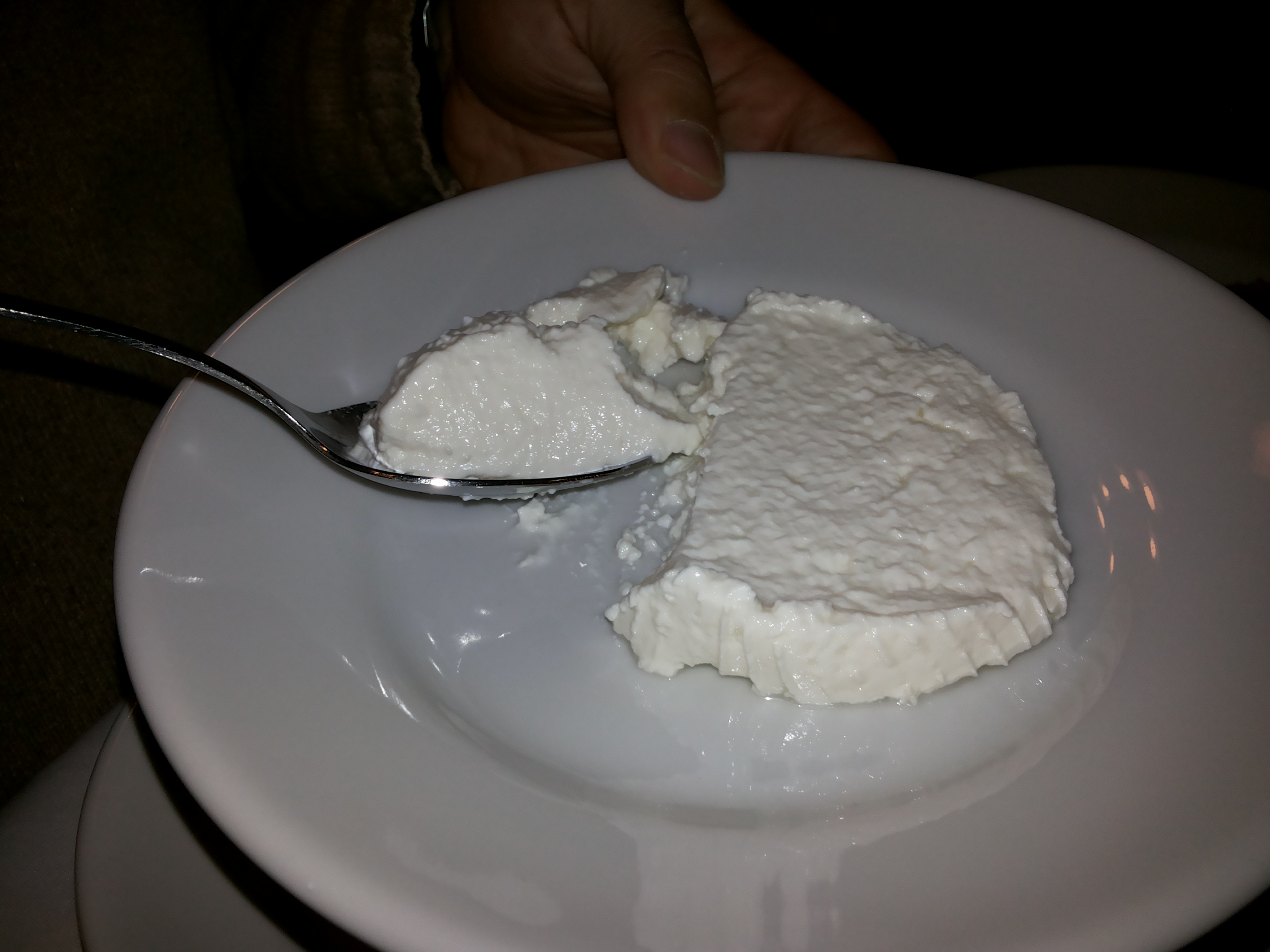 Food of Trapani province, in Sicily - Ricotta cheese.